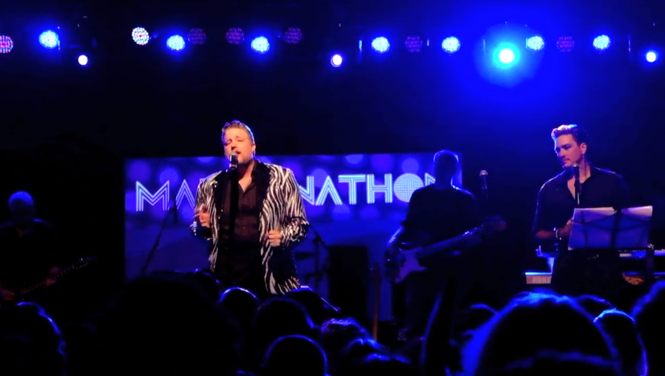 The 10th Annual MADONNATHON Tribute Show & Dance Party